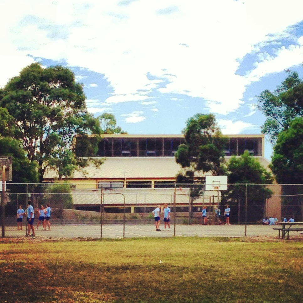 Colo high